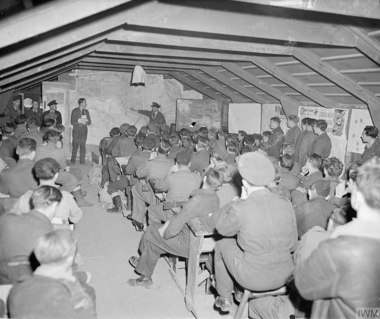 IWM caption : Vickers Wellington aircrews of No. 40 Squadron RAF being briefed at Foggia Main, Italy, before undertaking a bombing raid on the railway yards at Sarajevo, Yugoslavia.